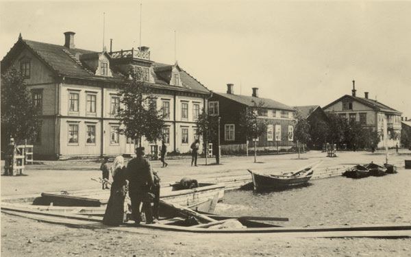 Good Templars Hall (temperance society lodge) and south harbour in Piteå, 1890